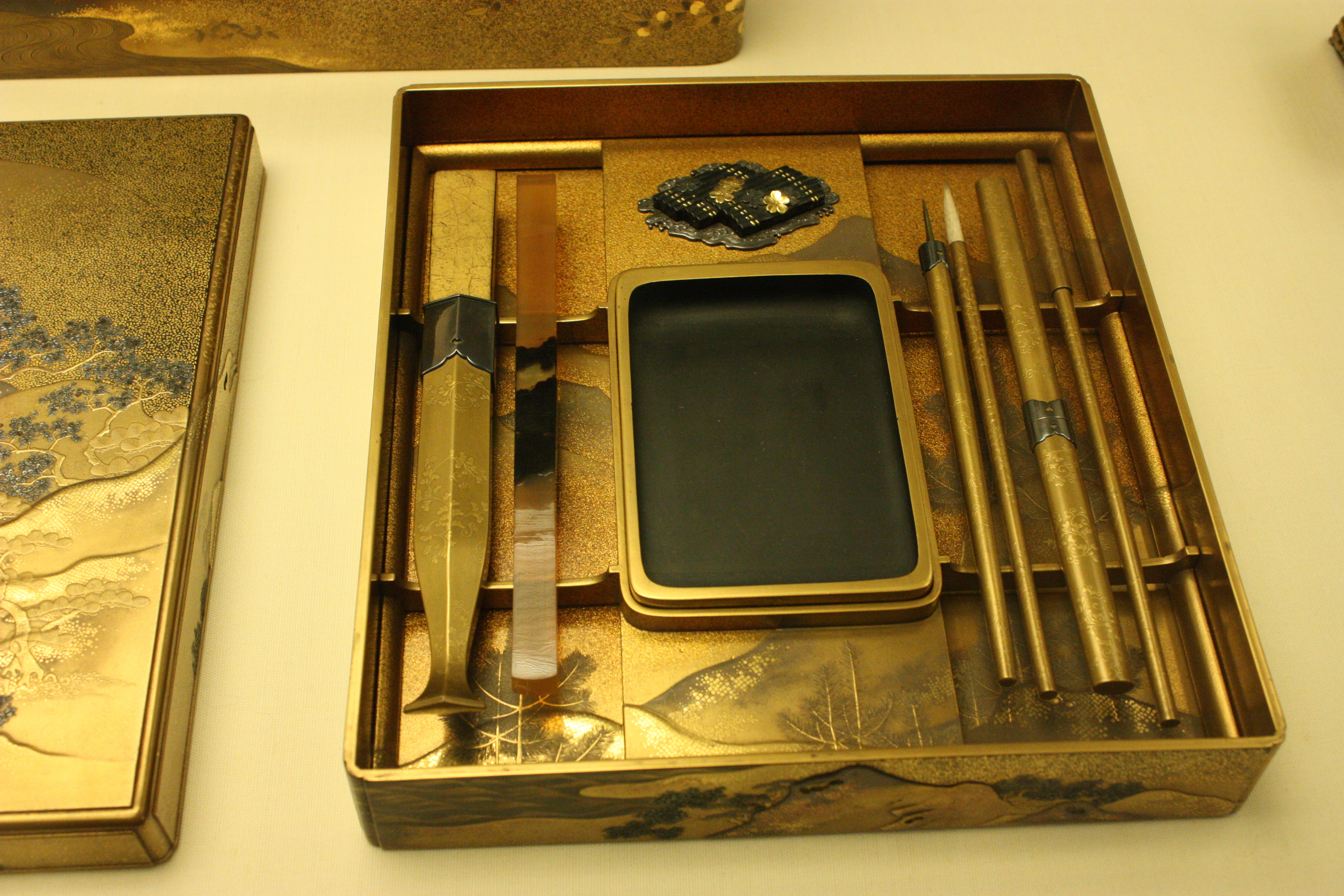 Box for writing utensils about 1850-1900 Wood covered in gold \\\'takamaki-e\\\' lacquer and foil with silver \\\'hiramaki-e\\\' lacquer and foil. Pine and cherry trees by a lake with boats. Inside of box with inkstone, ink holder, penknife, pricker, and paperweight; water dropper of \\\'shakudo\\\' and gold in the form of cherry blossoms on rafts. About 1850-1900 Parker Ness Gift Collection ID: W.27-1938 This photo was taken as part of Britain Loves Wikipedia in February 2010 by Valerie McGlinchey.